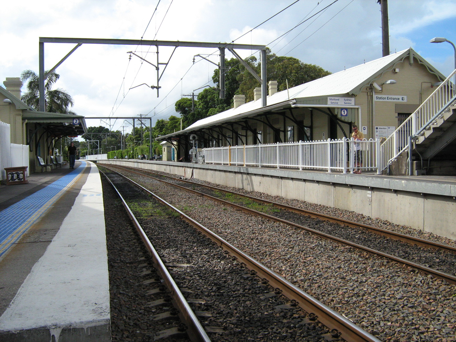 Hamilton railway station in Newcastle, taken from the Beaumont Street level crossing.